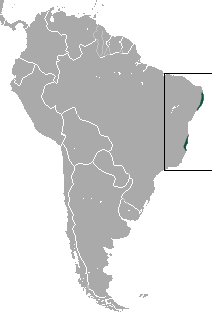 Blond Capuchin (Cebus flavius) range